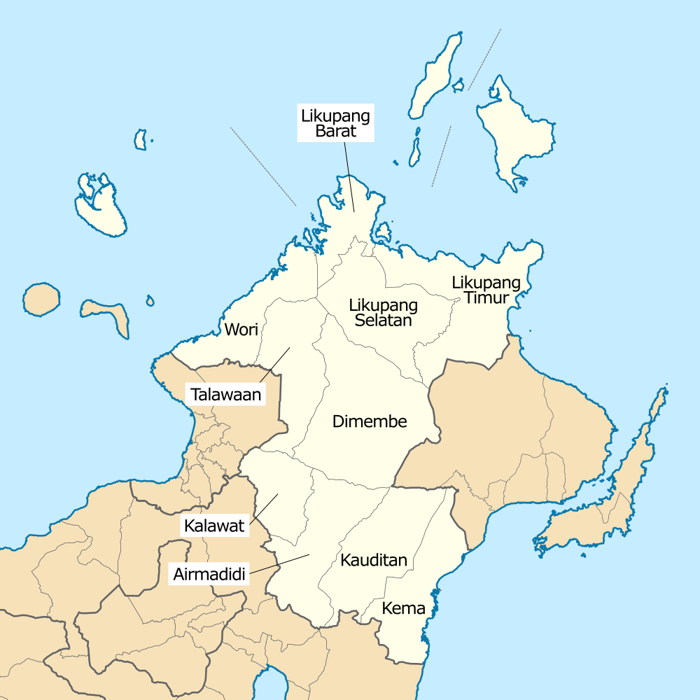 Map of sub-districts in North Minahasa Regency, North Sulawesi, Indonesia. Map data from tanahair.indonesia.go.id and kpu-sulutprov.go.id.